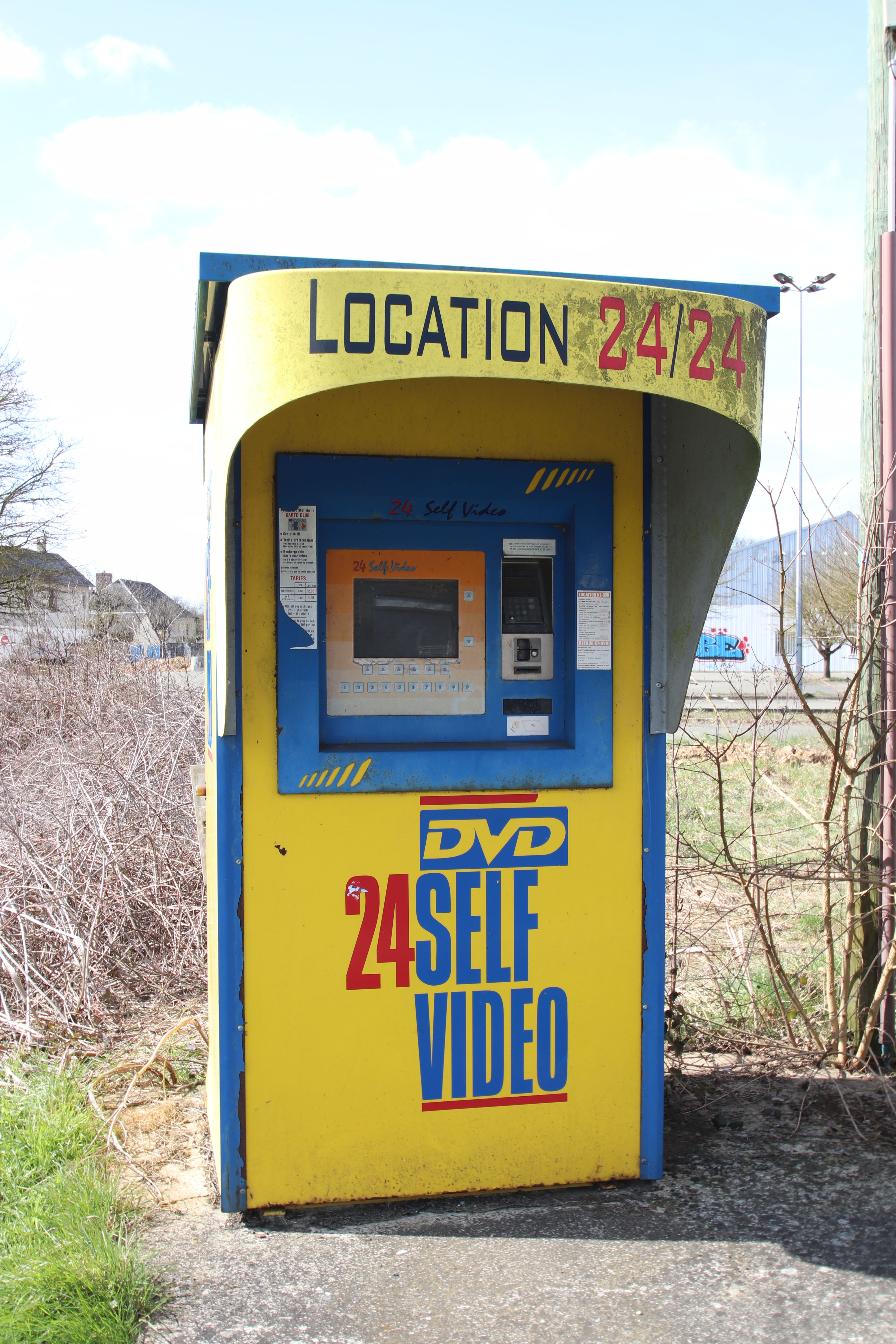 View of Saint-Calais, France. Object location47° 55′ 14.3″ N, 0° 44′ 35.52″ E